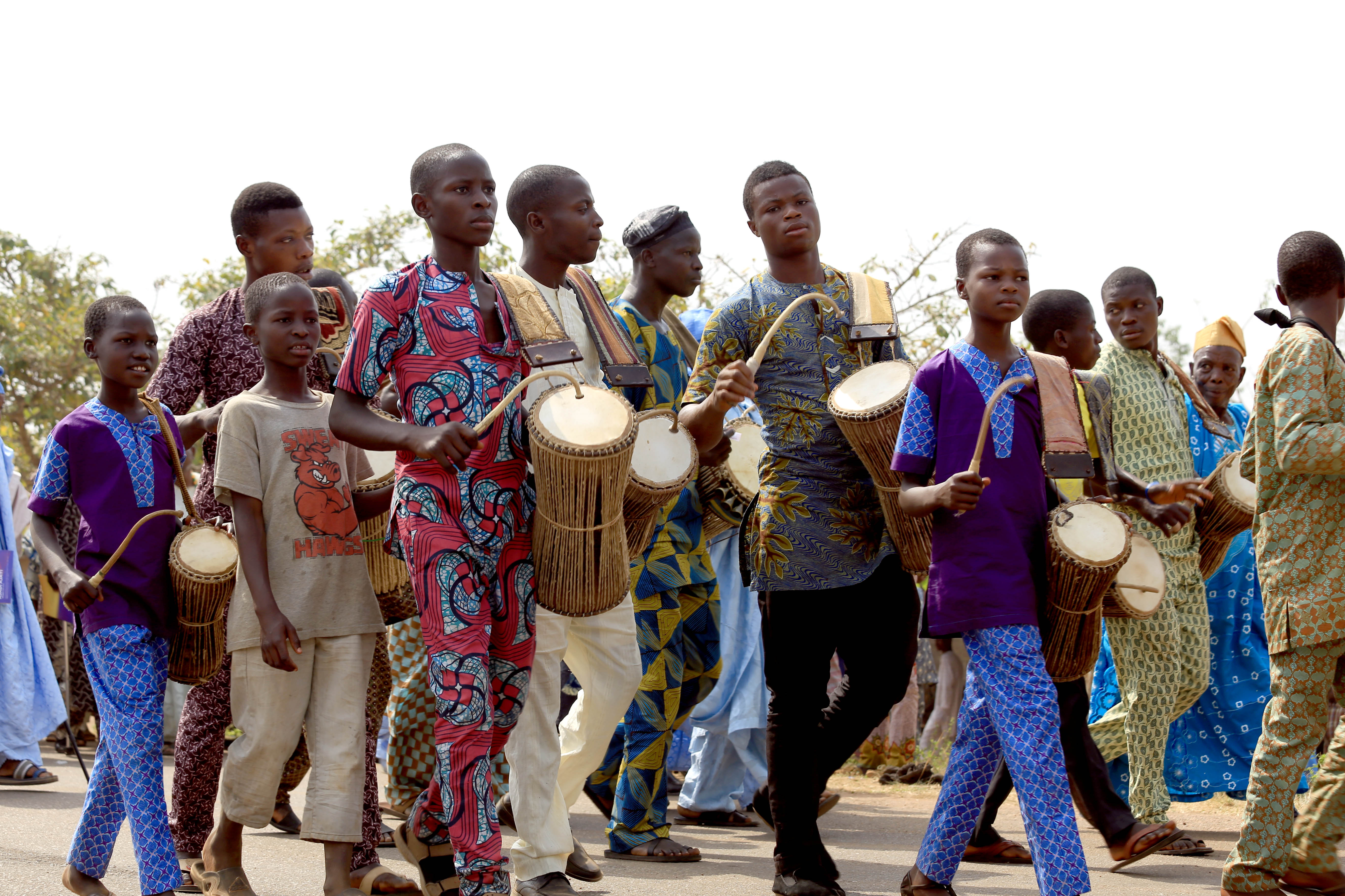 Traditional drummers in Ekusa, a village in Osun state, Nigeria This is an image from Nigeria